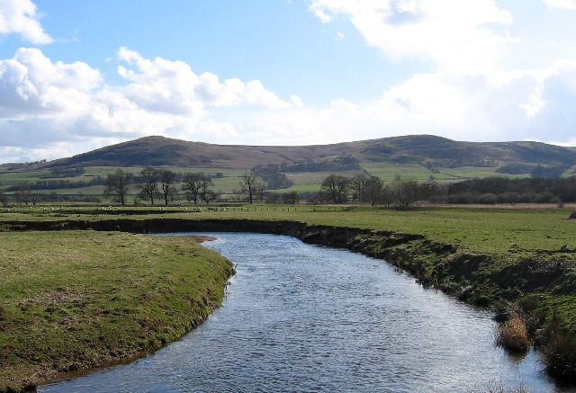 River Glen Looking south over the Millfield Plains towards the Cheviot foothills.